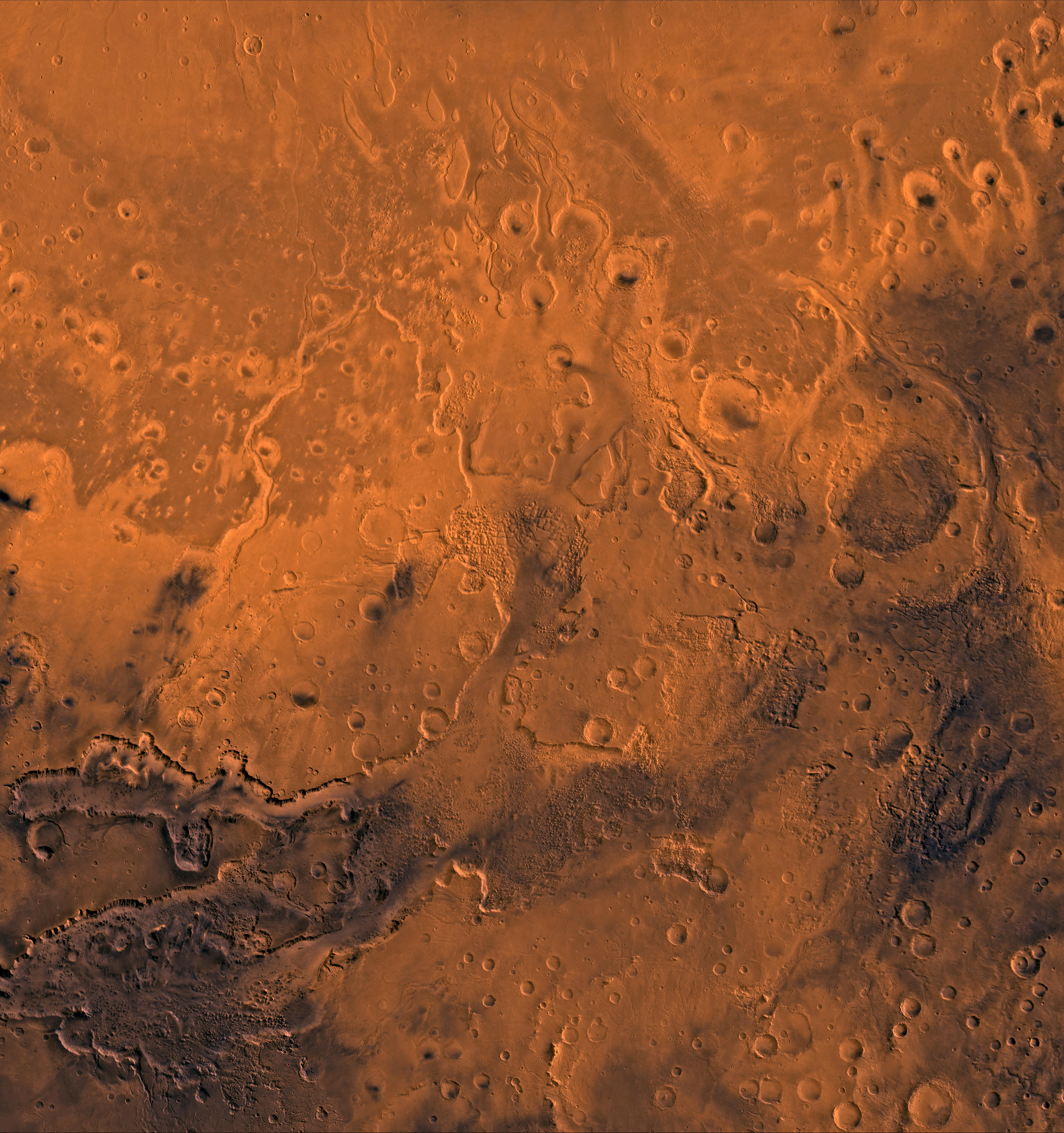 A Viking 2 orbiter view showing southern parts of Chryse Planitia, eastern parts of Valles Marineris, and several outflow channels in the area.